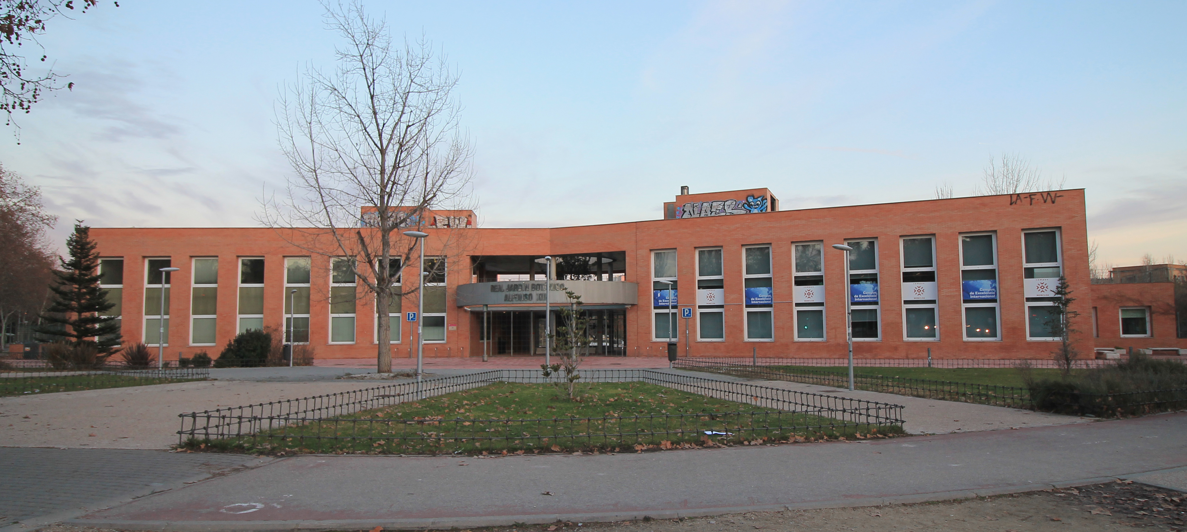 Façade of the Alfonso XIII Royal Botanical Garden in Ciudad Universitaria in Madrid (Spain). Building from 2001.